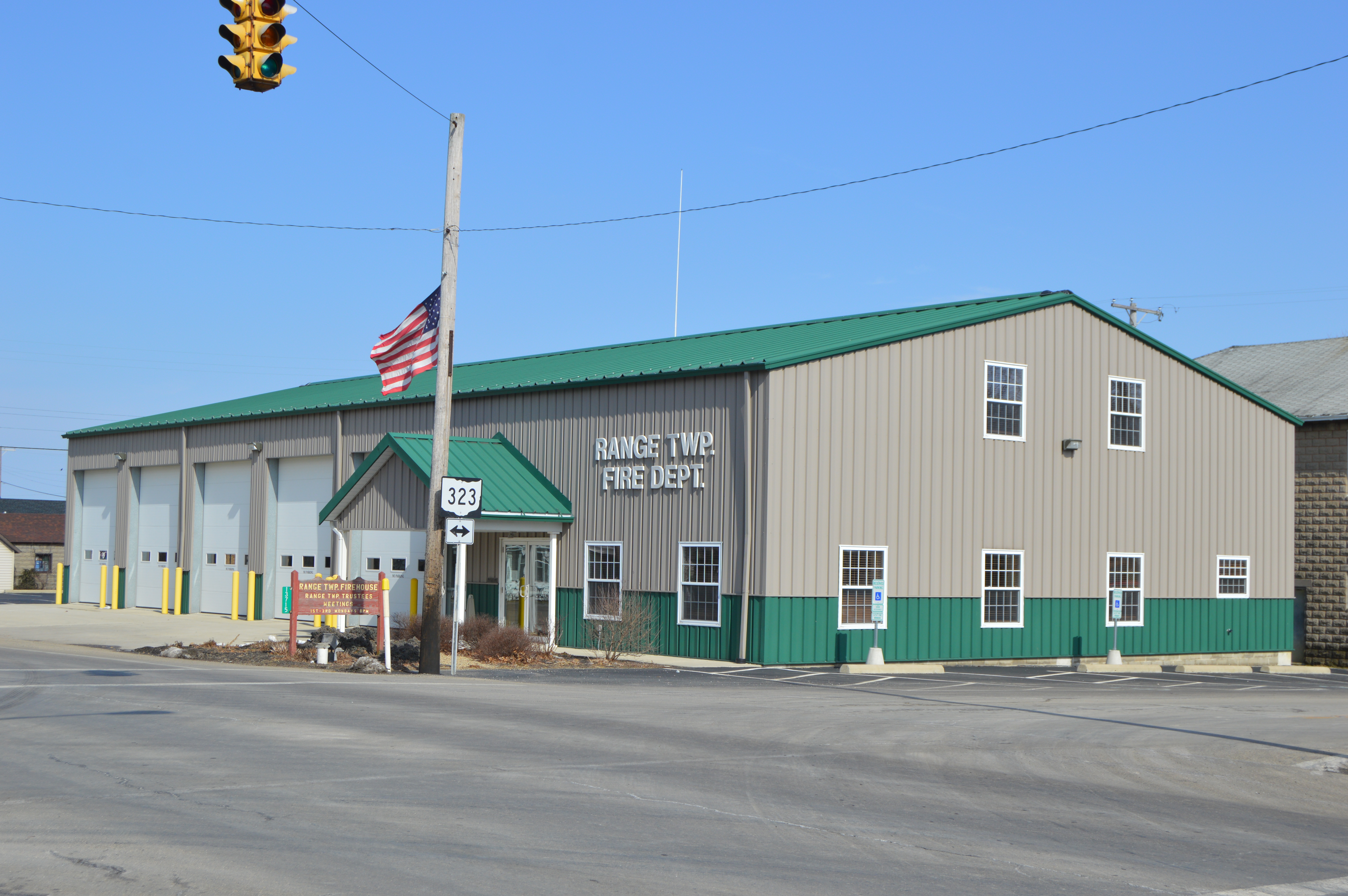 Front and southern side of the Range Township fire department, located on the northeastern corner of the junction of Main (State Route 38) and Federal (State Route 323) Streets in Midway, Ohio, United States.